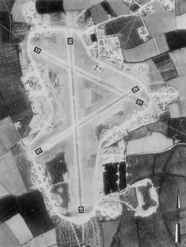 Aerial photograph of Folkingham Airfield, England, 9 May 1944